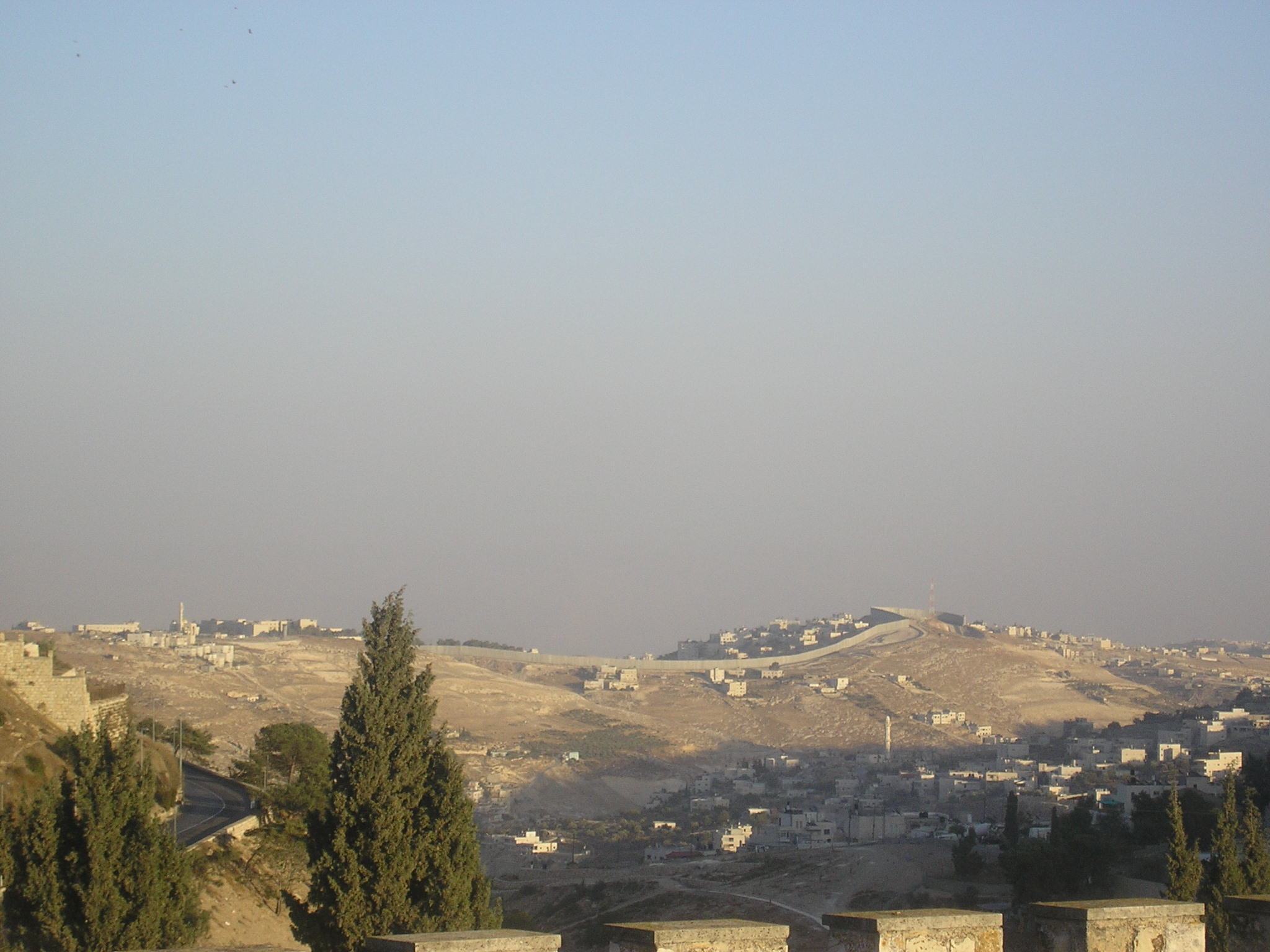 Panoramic view of the separation wall in Jerusalem, lookinf from Mishkenot Shaananim to Abu dis גדר ההפרדה בירושלים 2005, מבט משכונת משכנות שאננים לכיוון אבו דיס